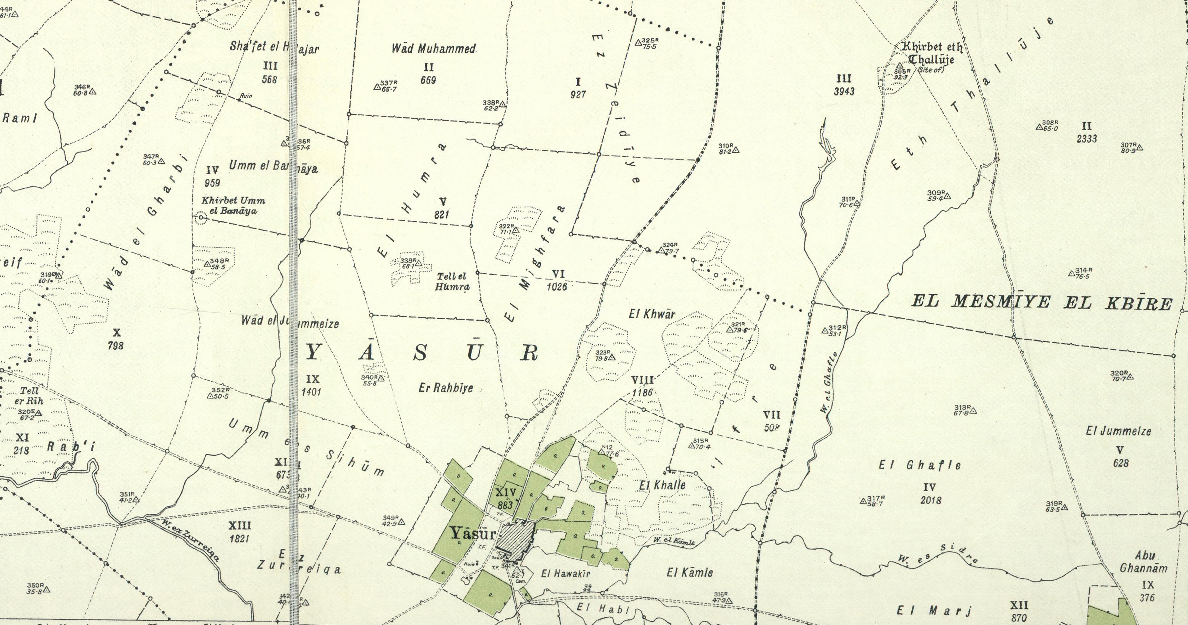 Yasur 1930 1:20,000